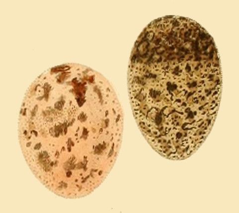 « Fringilla cucullata » = Paroaria coronata (Red-crested Cardinal) - egg